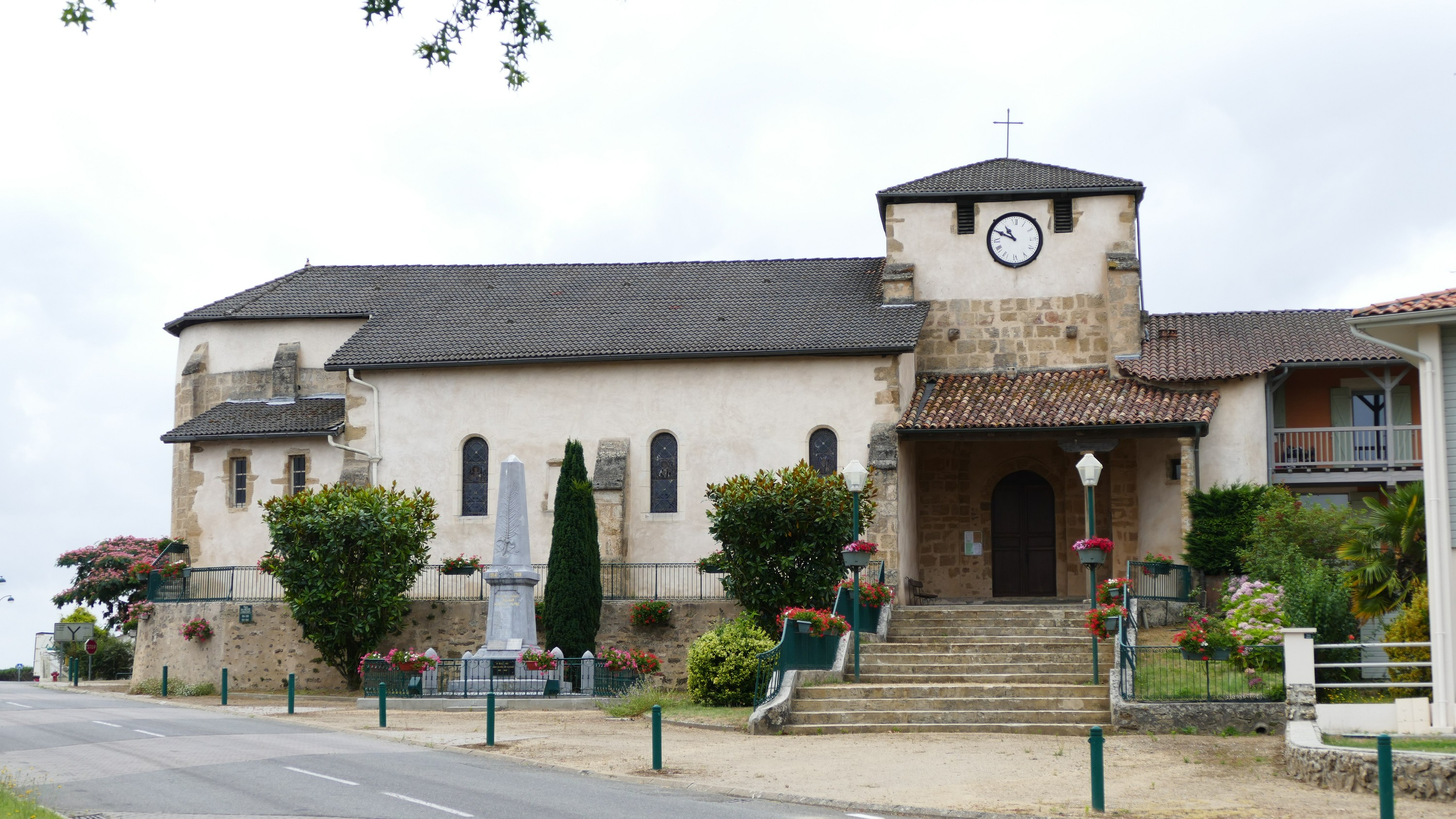 Saint-Peter-ès-Liens' church in Bégaar (Landes, Aquitaine, France).